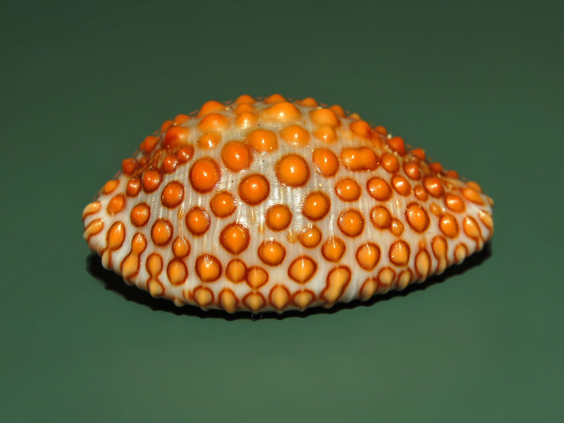 Jenneria pustulata